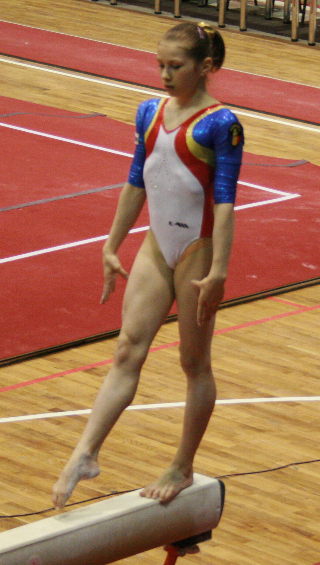 Amelia Racea on beam at the 2010 Romanian Artistic Gymnastics National Championships Bucharest April 11, 2010